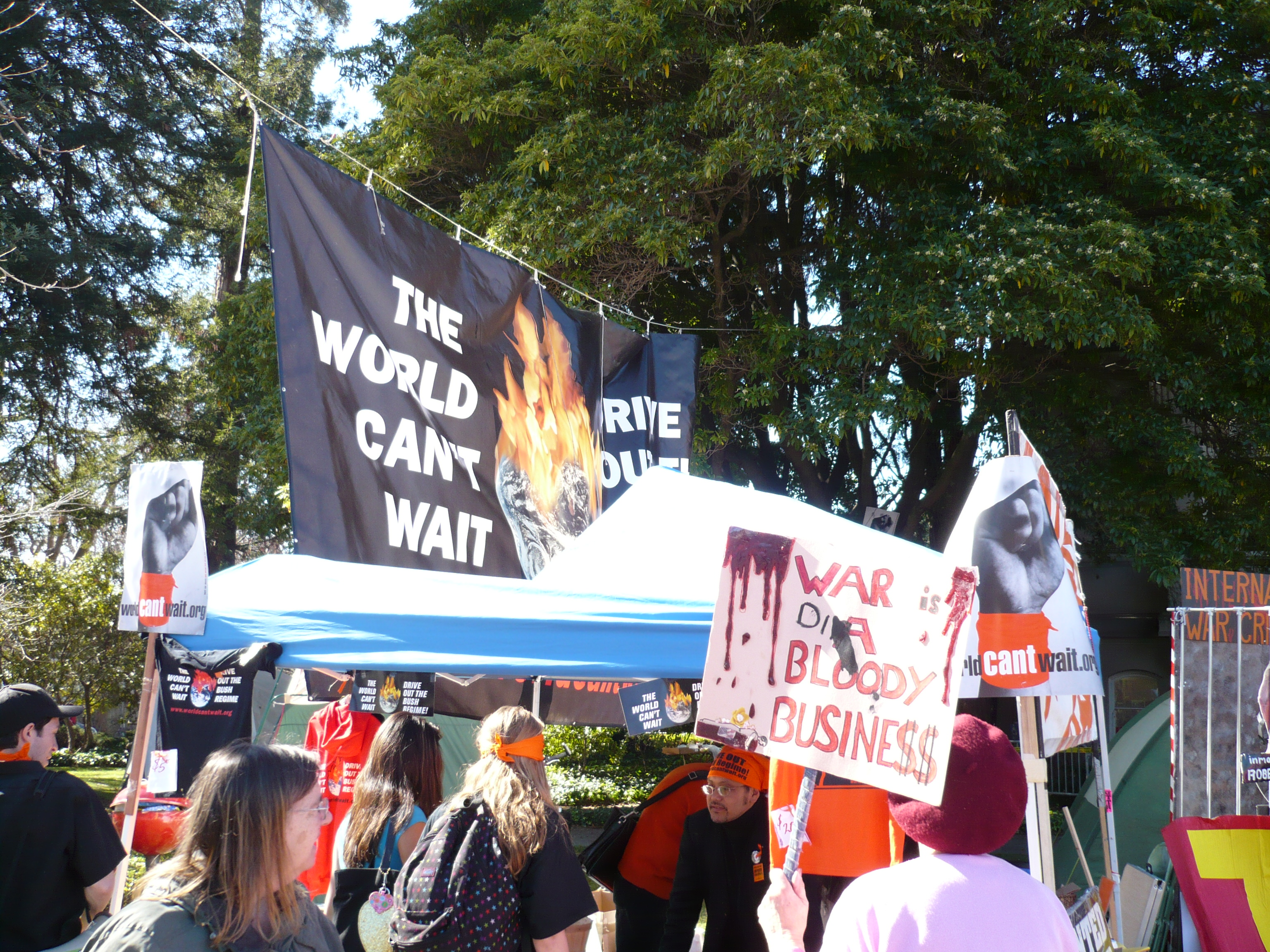 12 February 2008 The Berkeley City Council is meeting tonight to discuss whether it was a good idea to ask the city attourney to draft a letter saying that the Marine Corps Recruitment Center was "unwelcome" in the city of Berkeley. Pro and anti war activists have gathered in front of city hall.